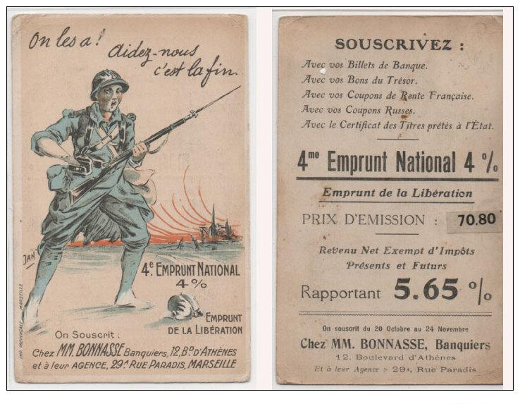 Affiche emprunt ancien